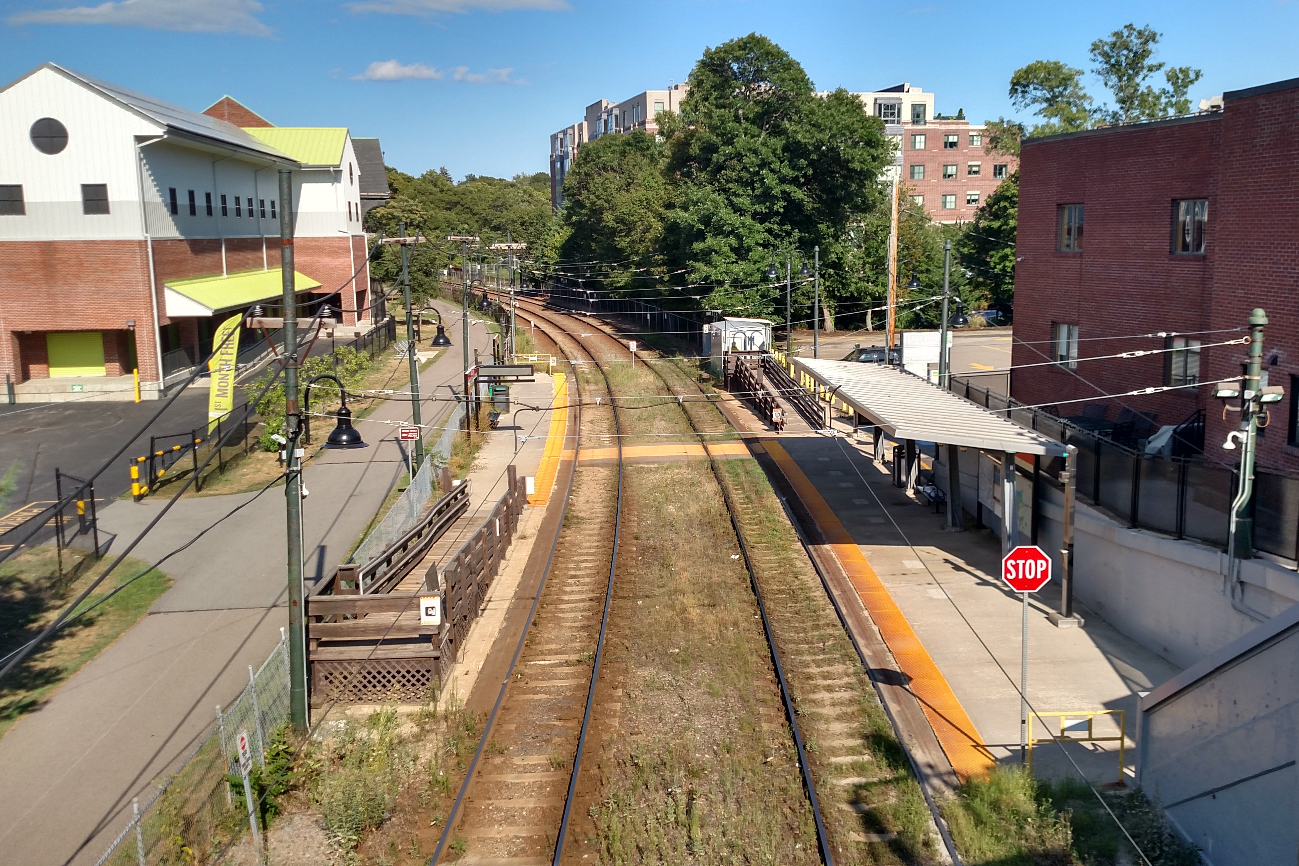 Milton station in August 2016